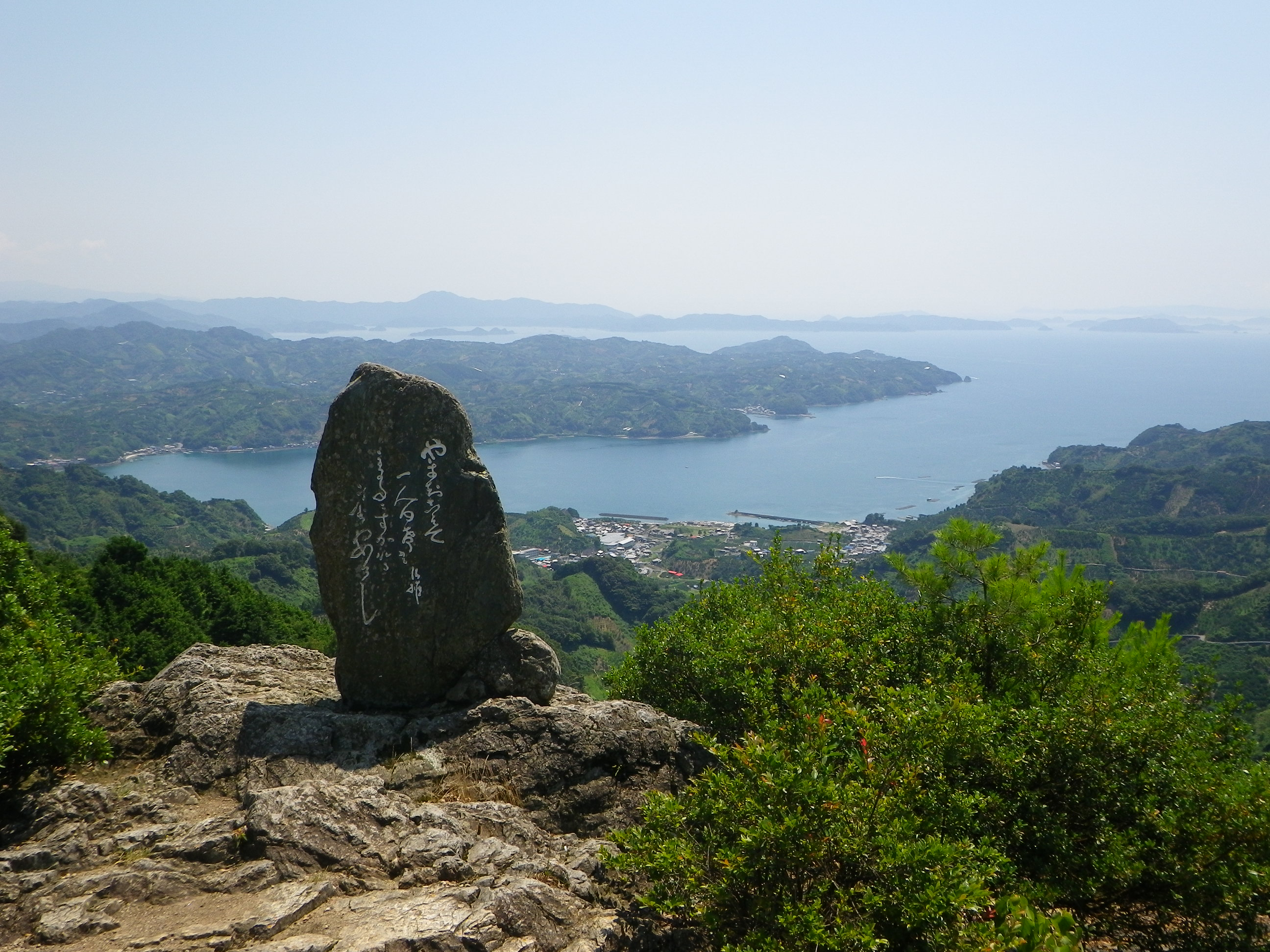 Hoketsu-pass